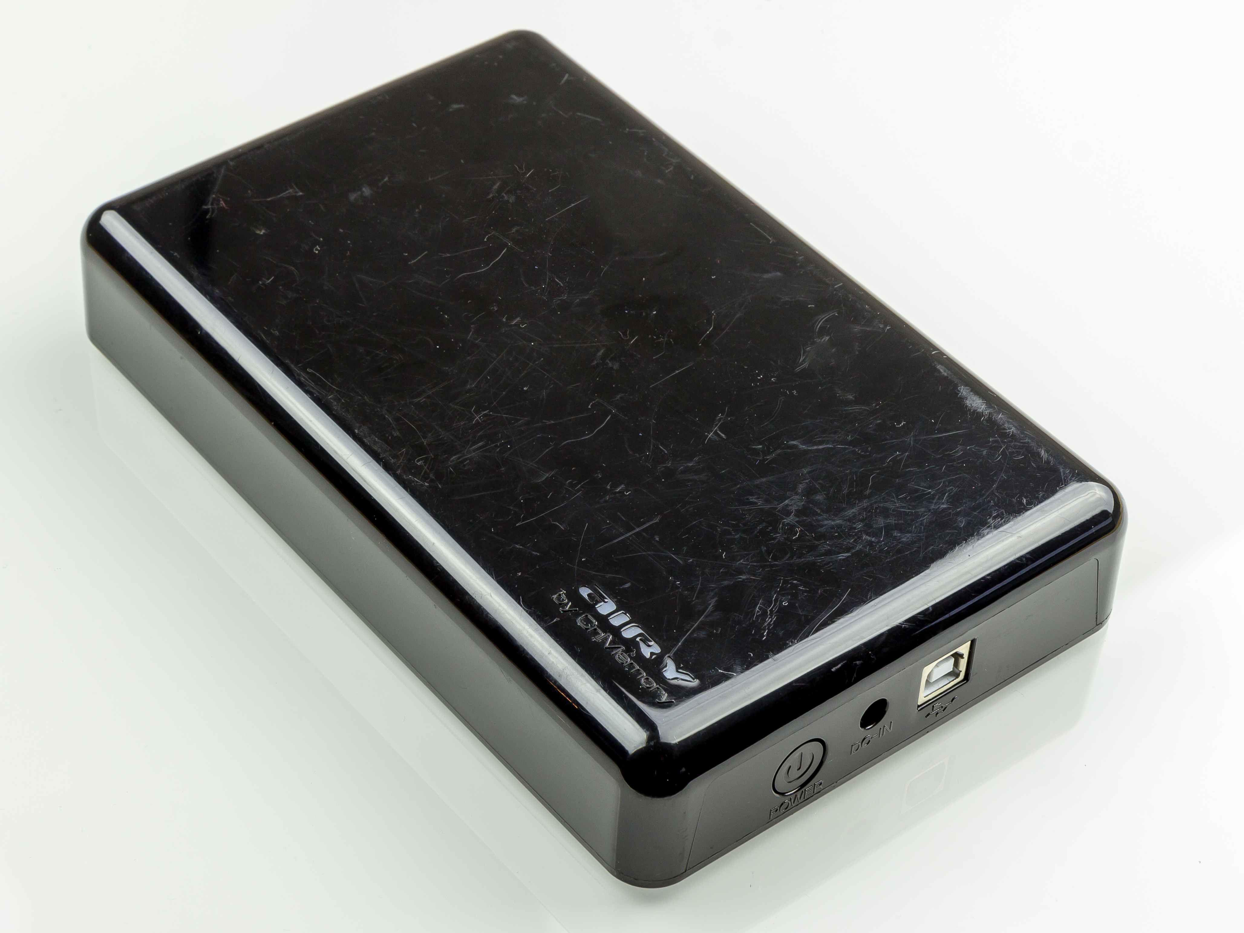 Airy by CnMemory, external hard disk. Distributor: "Chips and More GmbH". Inside: Seagate Barracuda Green 2000GB (ST2000DL003)